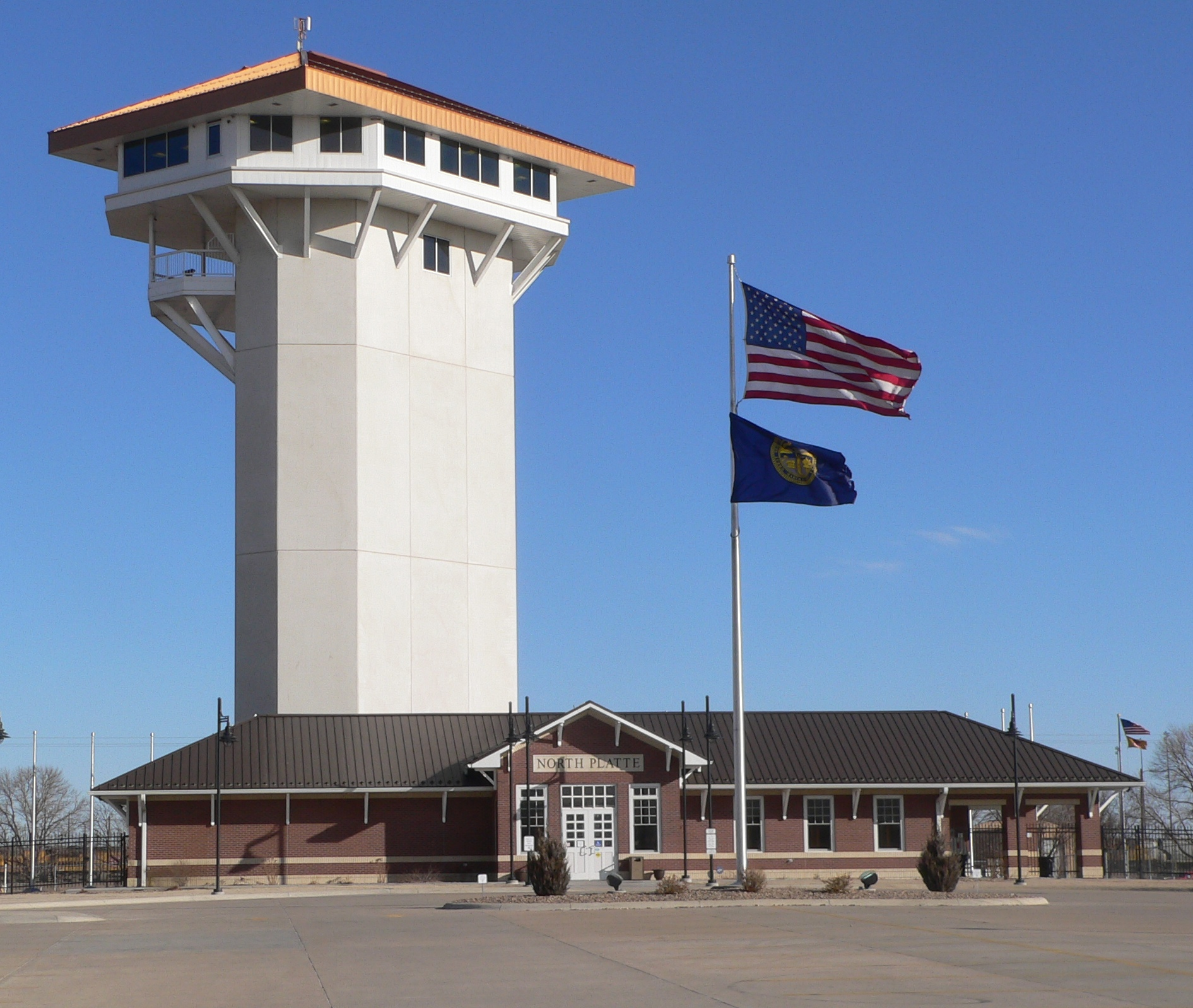 Golden Spike Tower and visitor center at Union Pacific Railroad's Bailey Yard in North Platte, Nebraska.